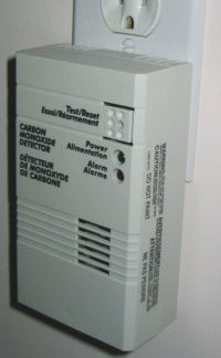 A CO (Carbon Monoxide) detector. Shown connected to a North American power outlet. This particular detector is for the Canadian market, so is labelled in both English and French. CO detectors, like smoke detectors, have prominent test buttons.